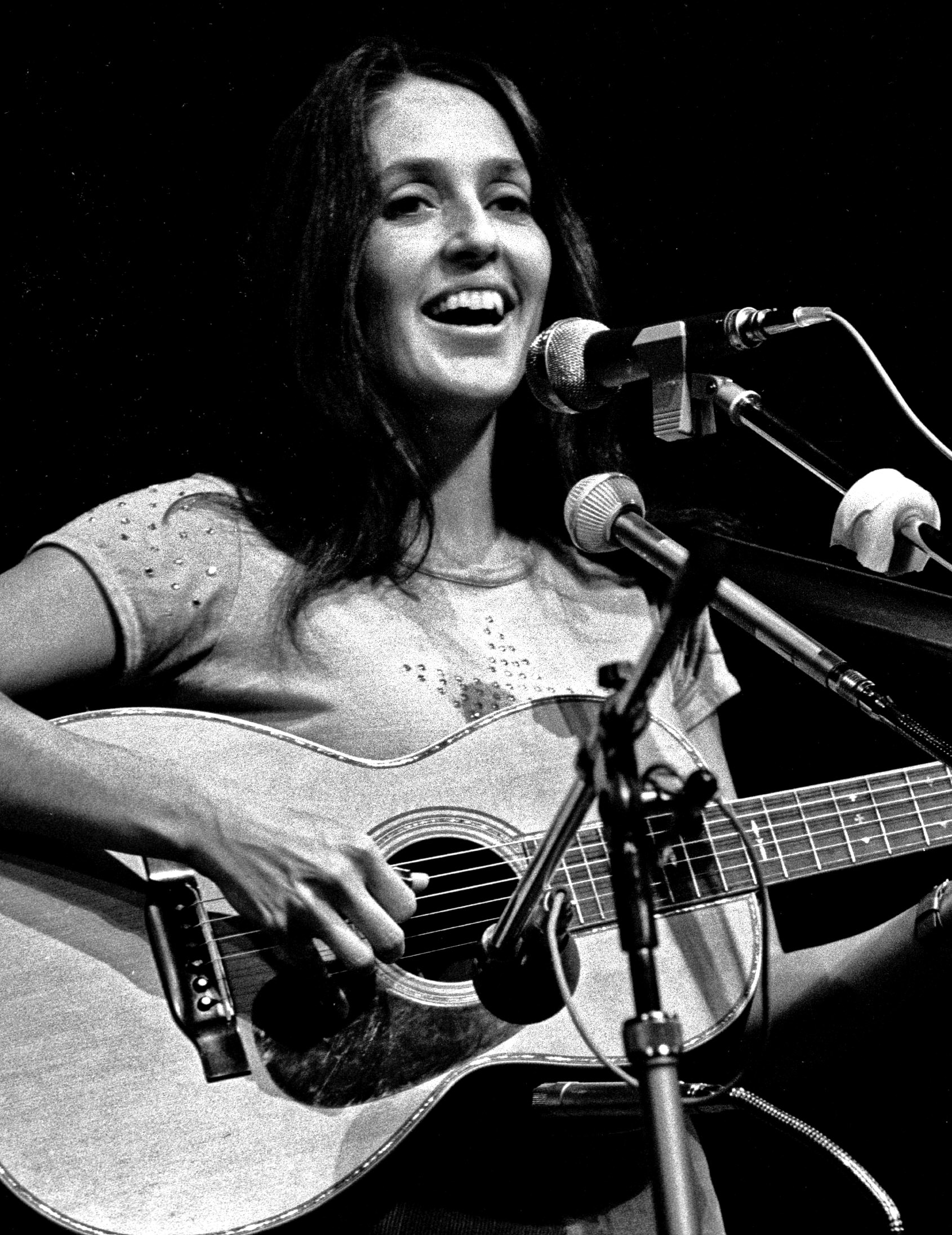 Protest singer Joan Baez performing in Hamburg Germany, 1973.